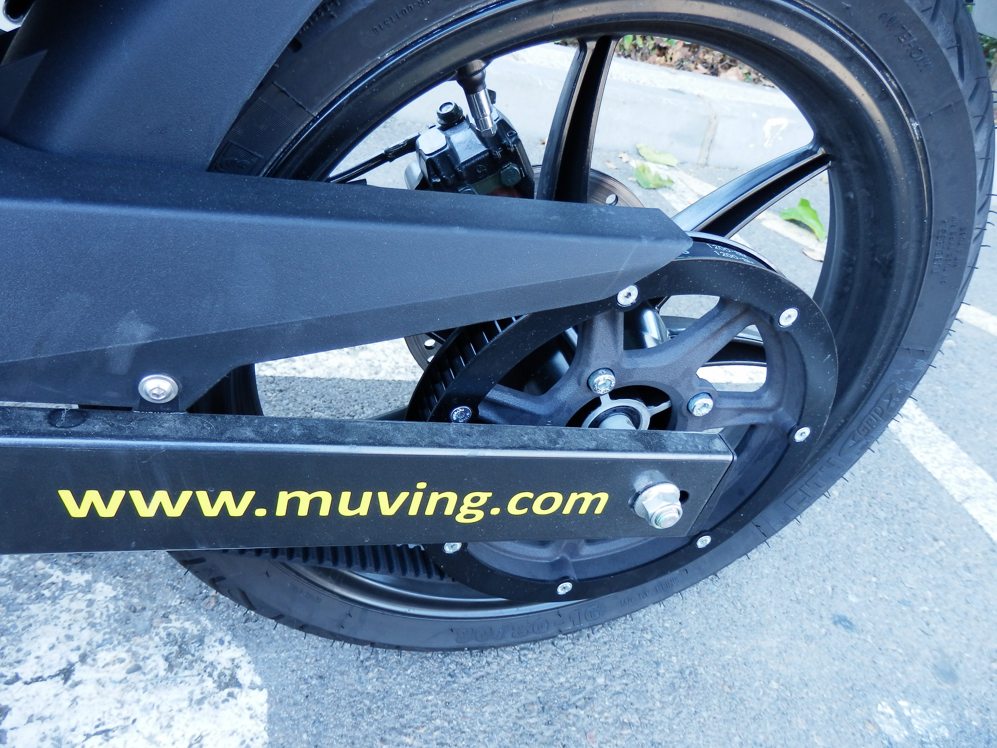 Torrot Muvi electric bike.